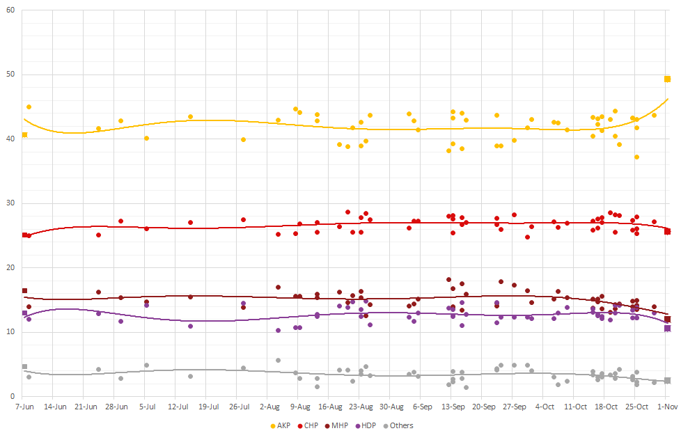 3-poll average trend lines for AKP, CHP, MHP, HDP and others for the Nov. 2015 election in Turkey